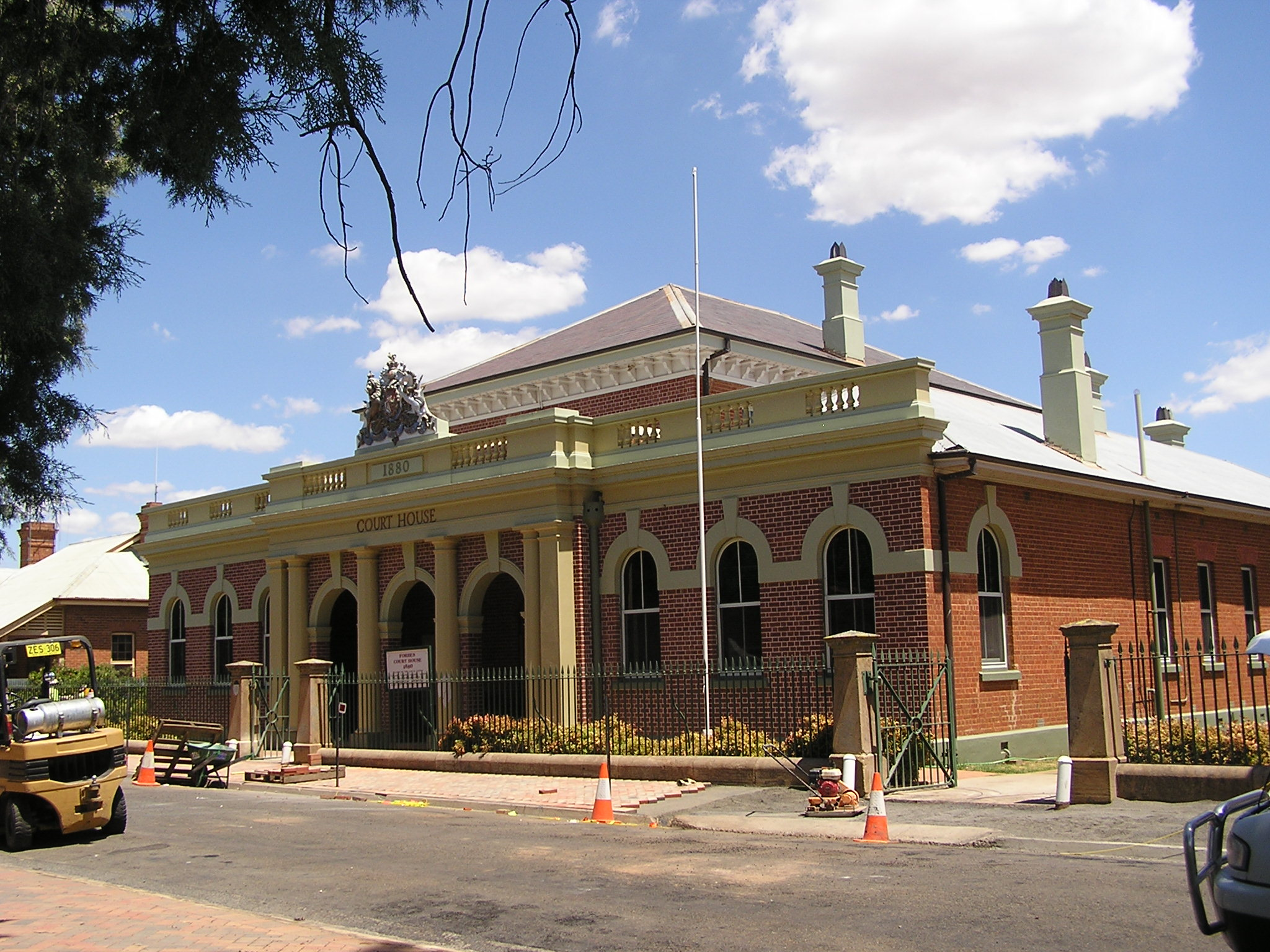 Forbes, New South Wales, Australia Court House - 1880. From: : "Classical Revival courthouse (1880)." Picture taken by AYArktos